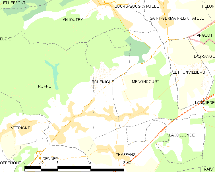 Map of French municipality Eguenigue